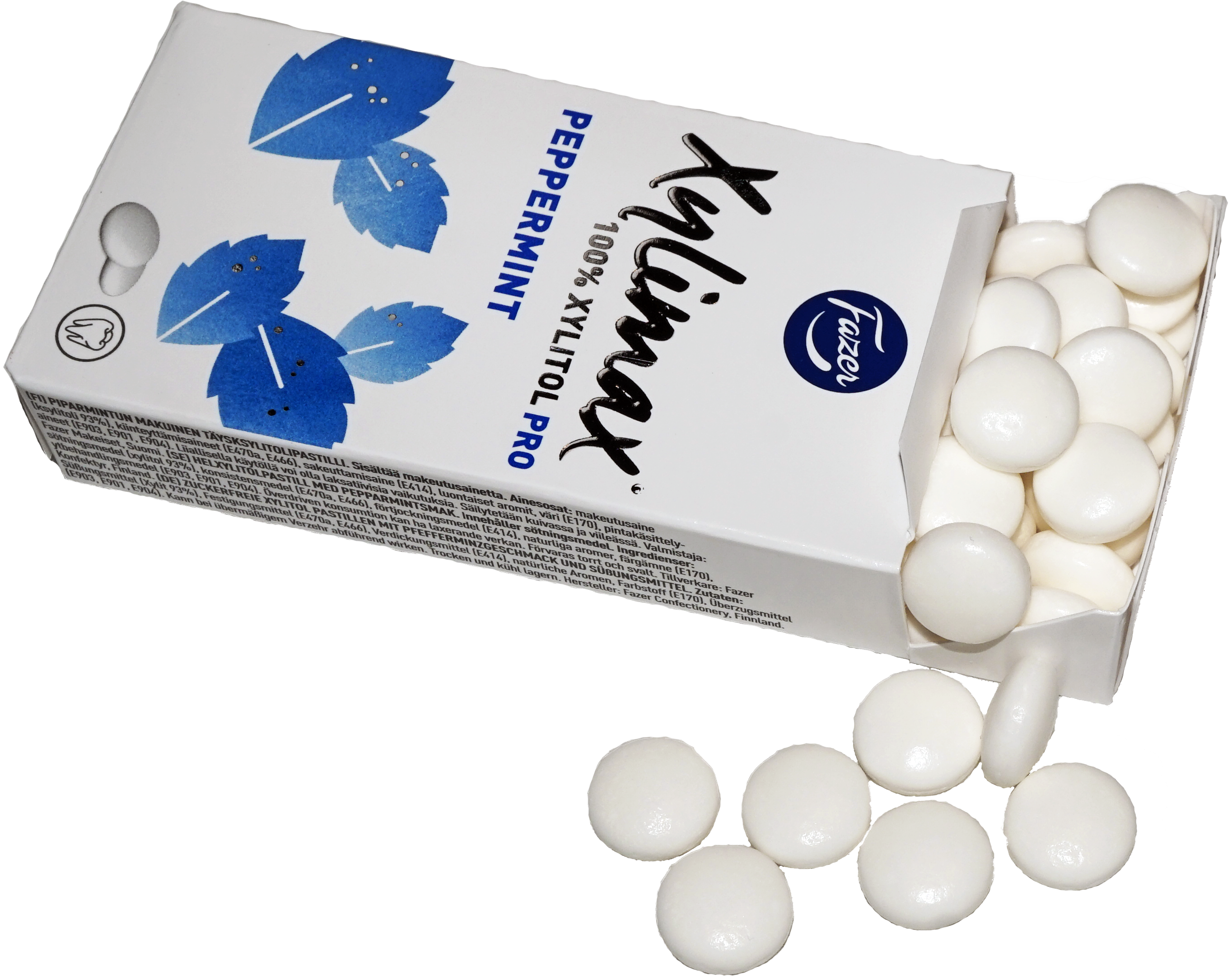 Xylimax xylitol pastilles by Fazer.